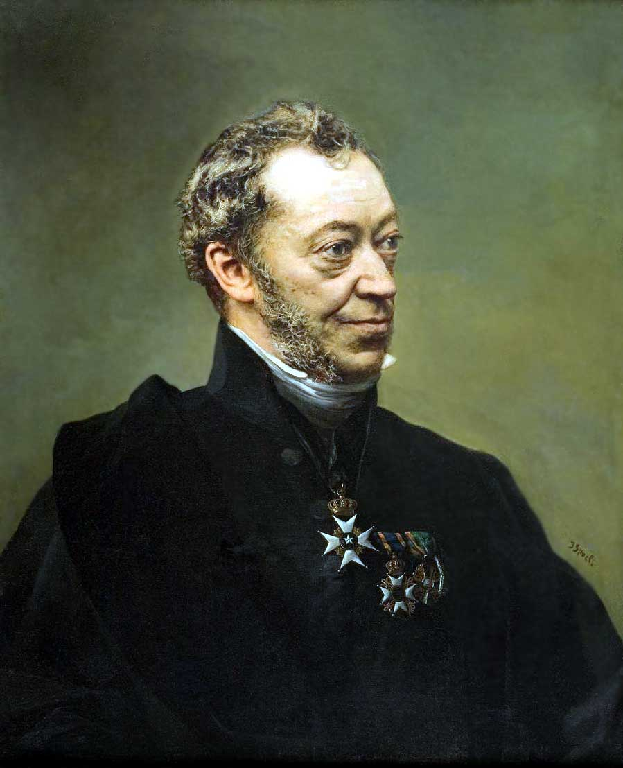 Jan van der Hoeven (1801-1868), professor natural history Leiden University